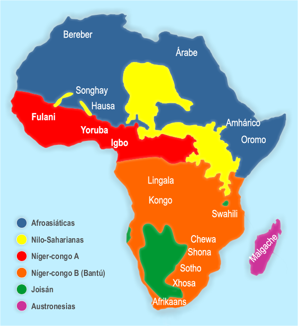 Unknown language: Familias de lenguas de Africa